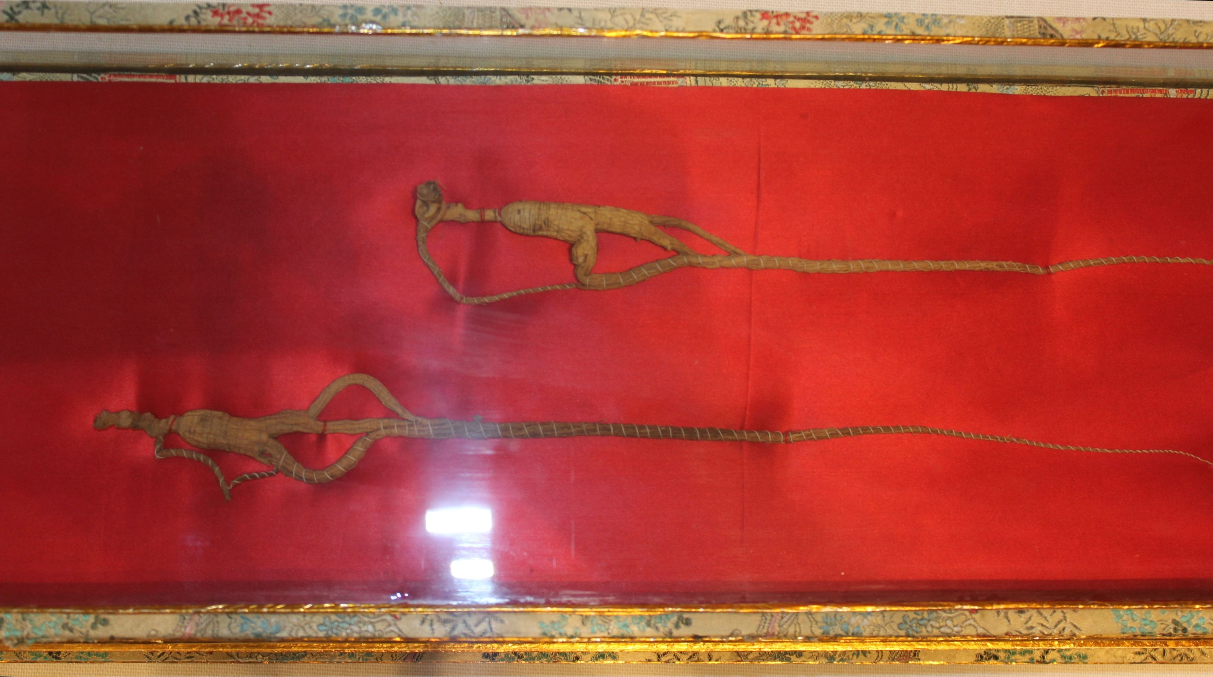 The ginseng of the product of nature which cannot be obtained now